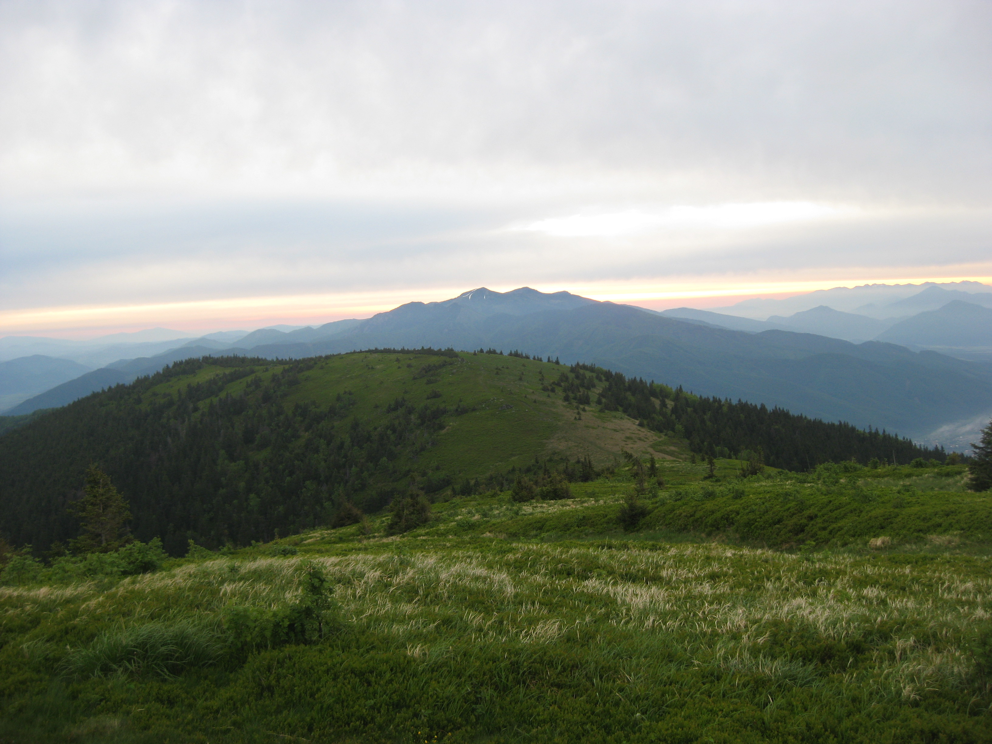 Mincol and Uplaz in Mala Fatra